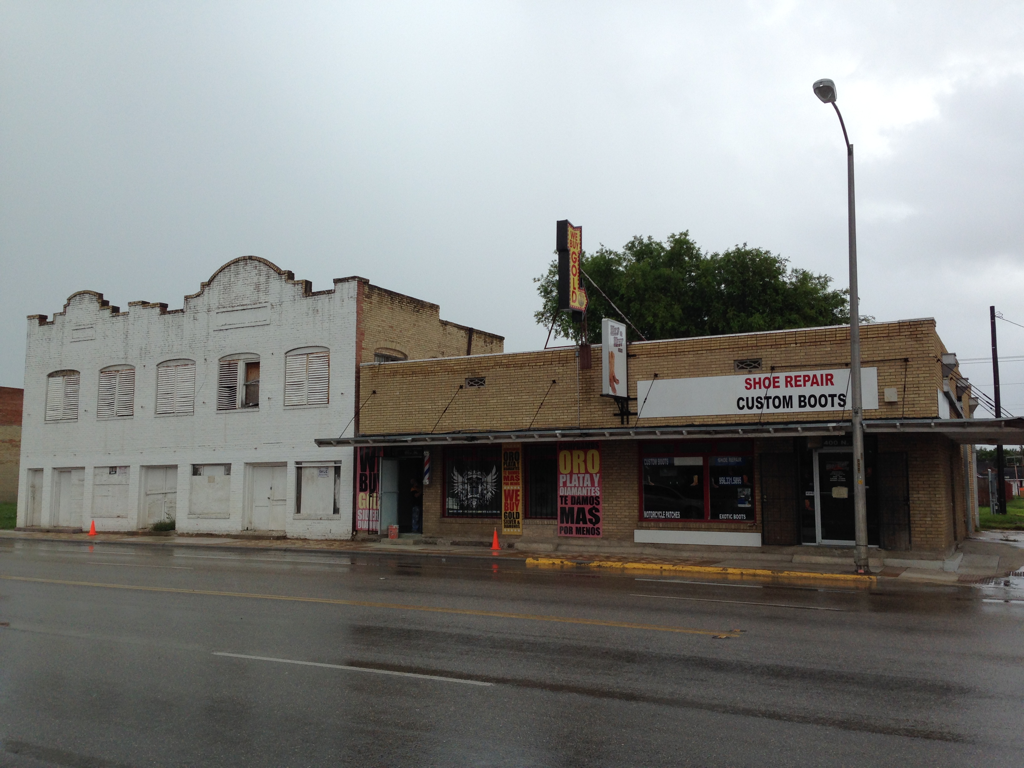 Lomita Boulevard Commercial Historic District